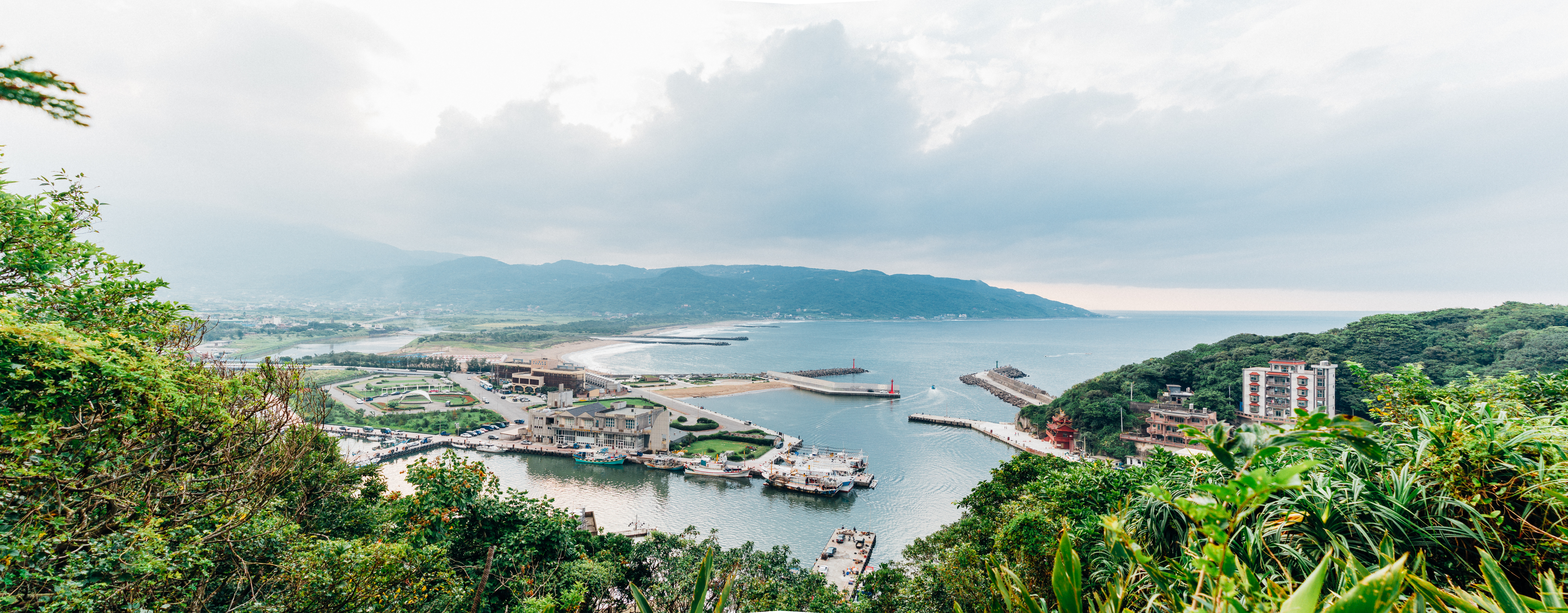 Huanggang Harbor, New Taipei City, Taiwan